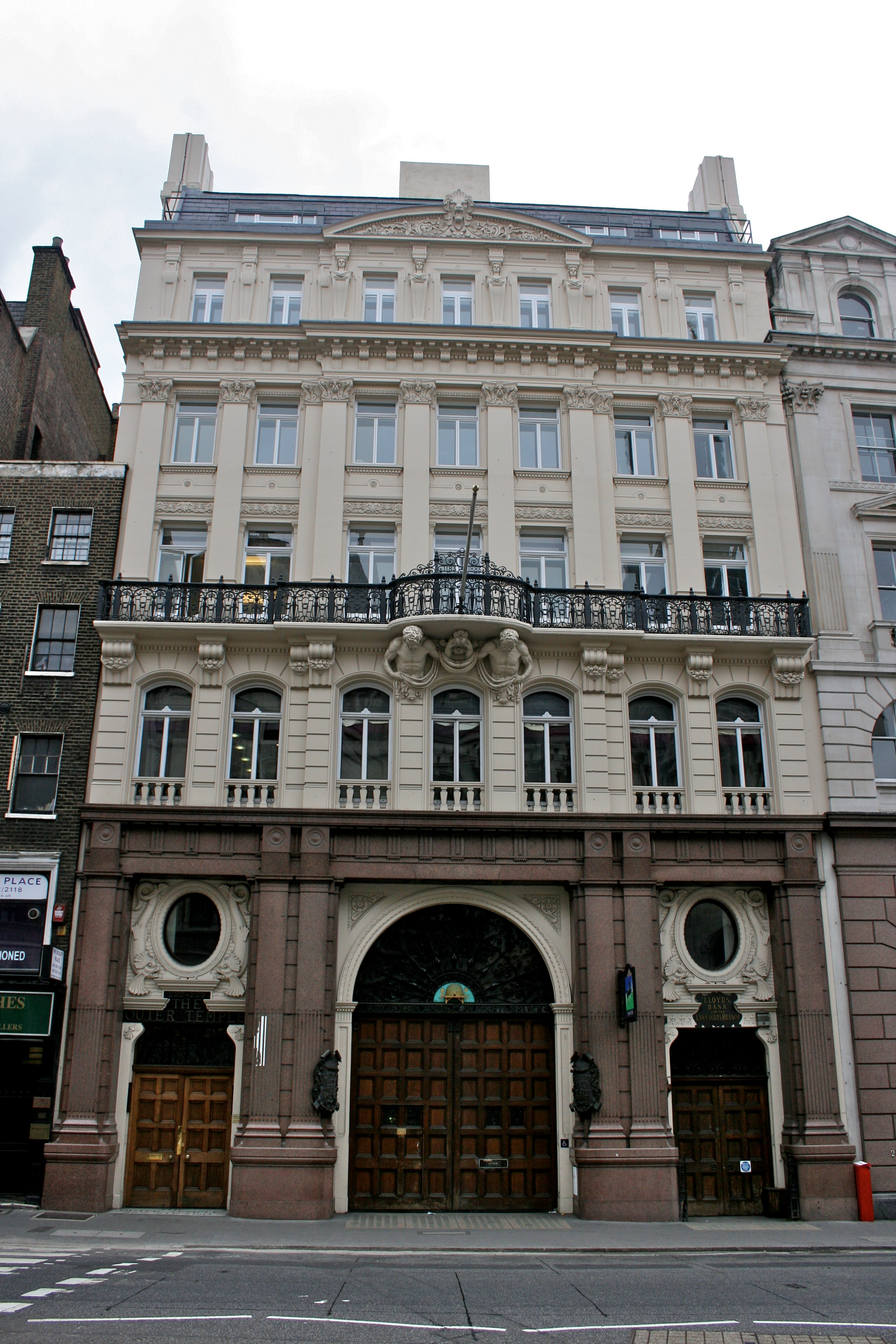 222 Strand, London. The Outer Temple and Lloyds Bank Law Court branch